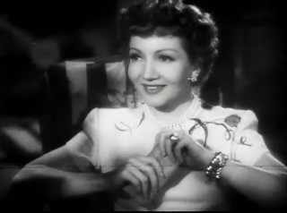 Cropped screenshot of Claudette Colbert from the film The Secret Heart